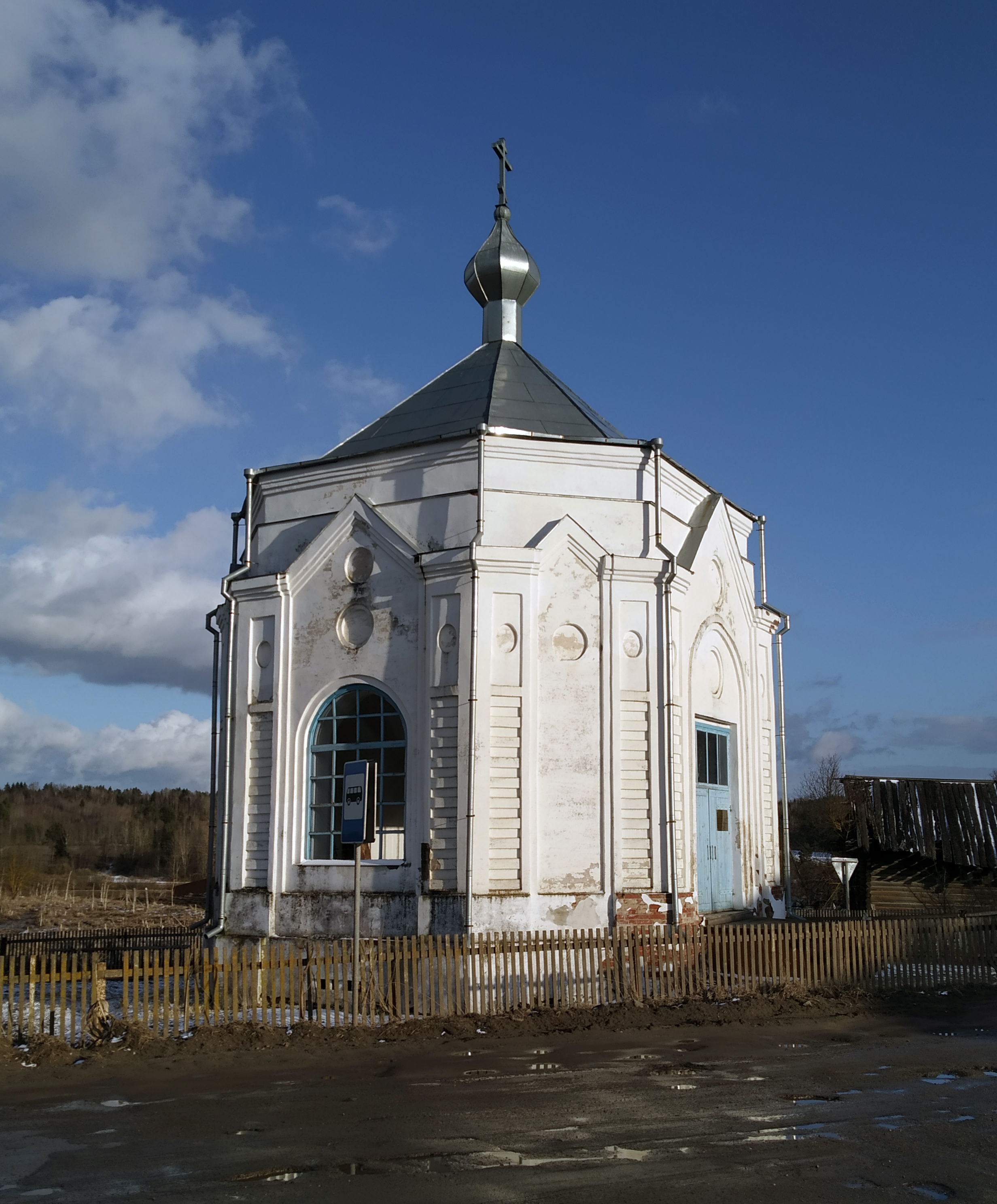 часовня Александра Невского в деревне Шелюбинская